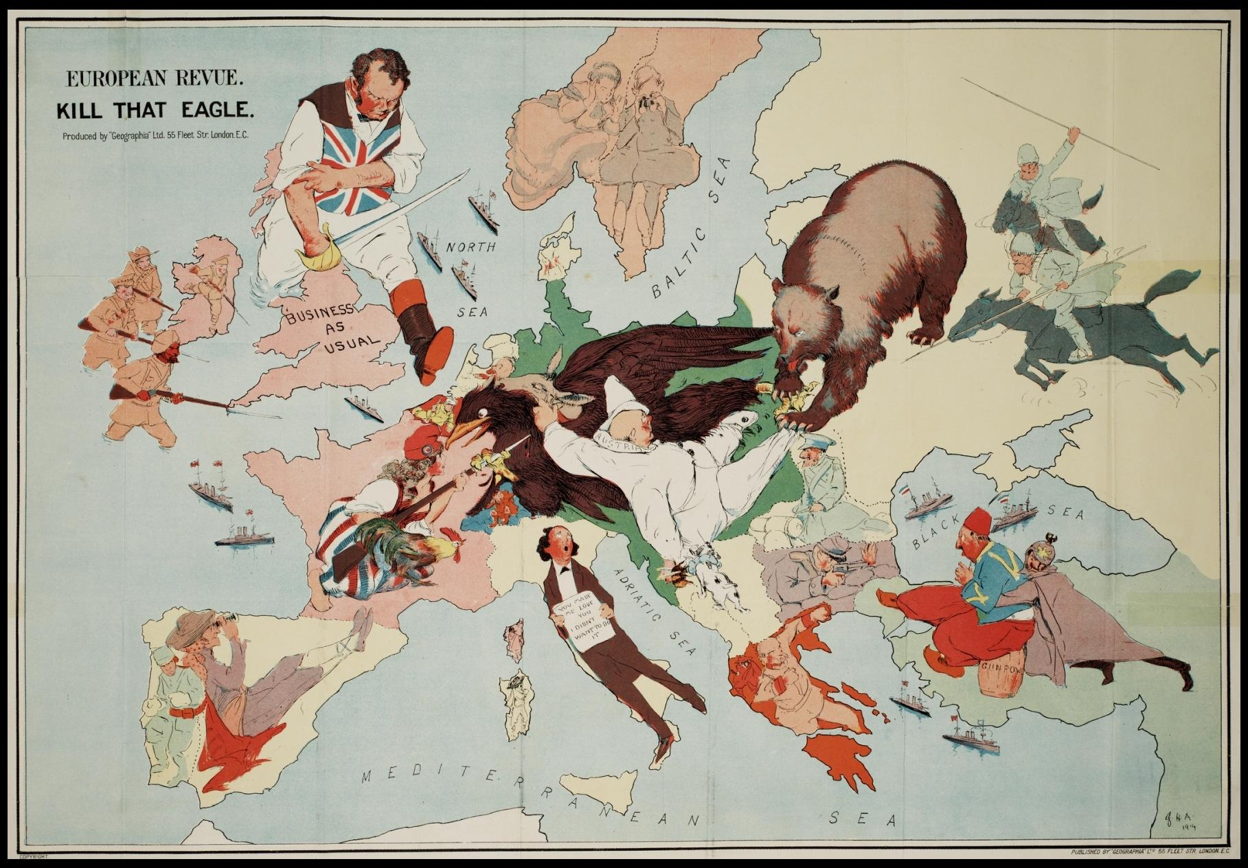 Cartoon of the First World War from European Revue.